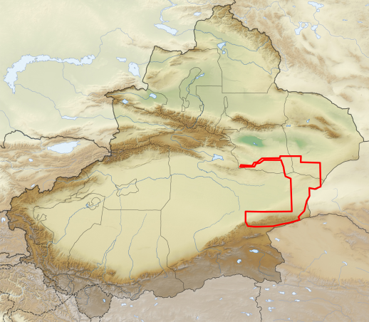 Lop Nur Wild Camel Reserve Boundaries (in red outline)